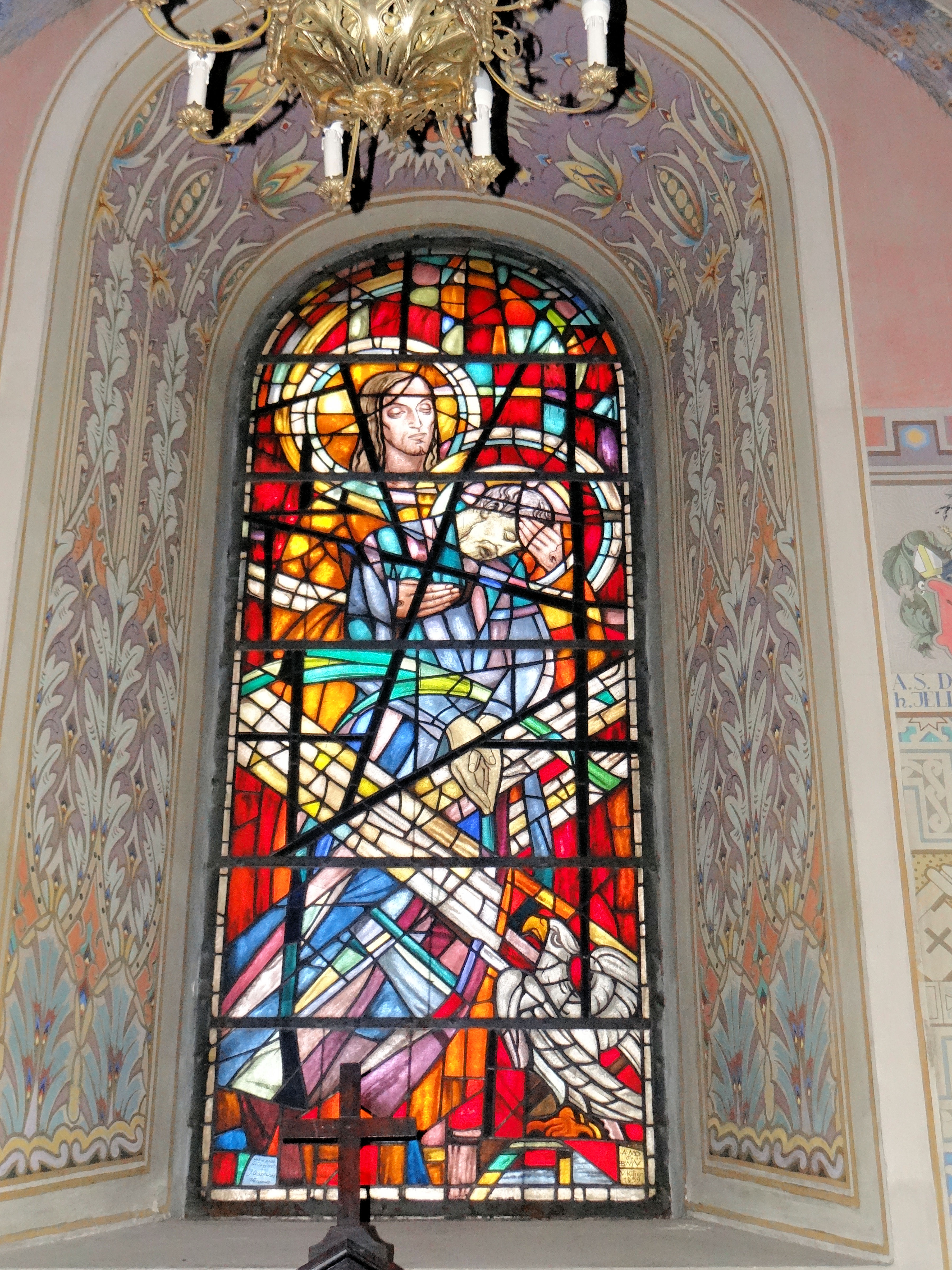 Altar of Płock Cathedral